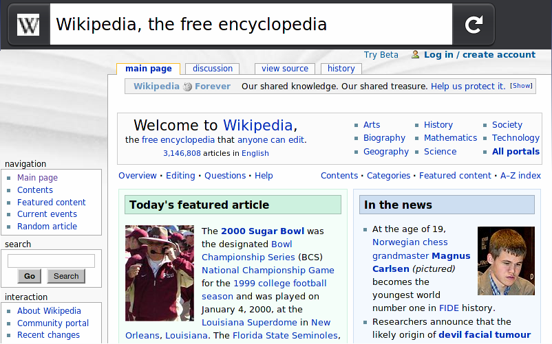 Firefox for mobile version 1.0rc1 displaying English Wikipedia's main page